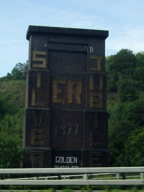 Remains of railway viaduct This is all that remains of a railway viaduct built by the Barry Railway. The line ran from Penrhos Junction near Caerphilly to the coal port of Barry. It is now a monument commemorating the silver jubilee of Queen Elizabeth II.